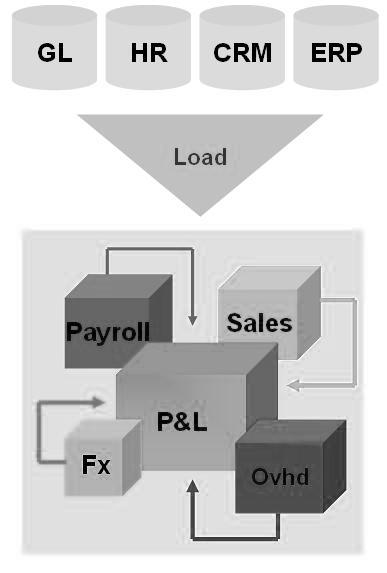 Diagram that shows how cubes interconnect through formulas